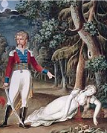 Masnadieri-act 5, sc 2 of Die Rauber